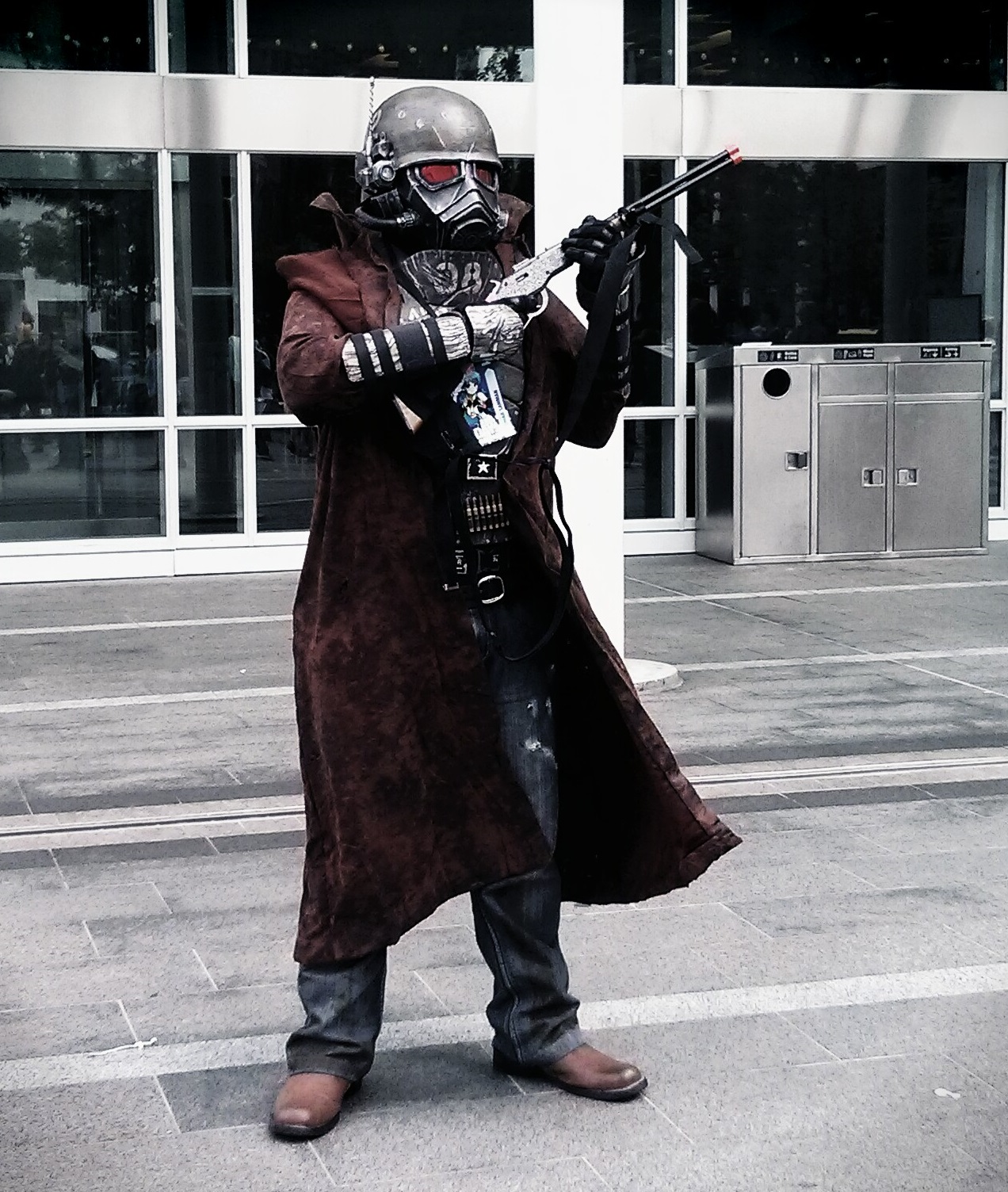 A Fallout cosplayer from the Vancouver anime fest hanging out downtown.